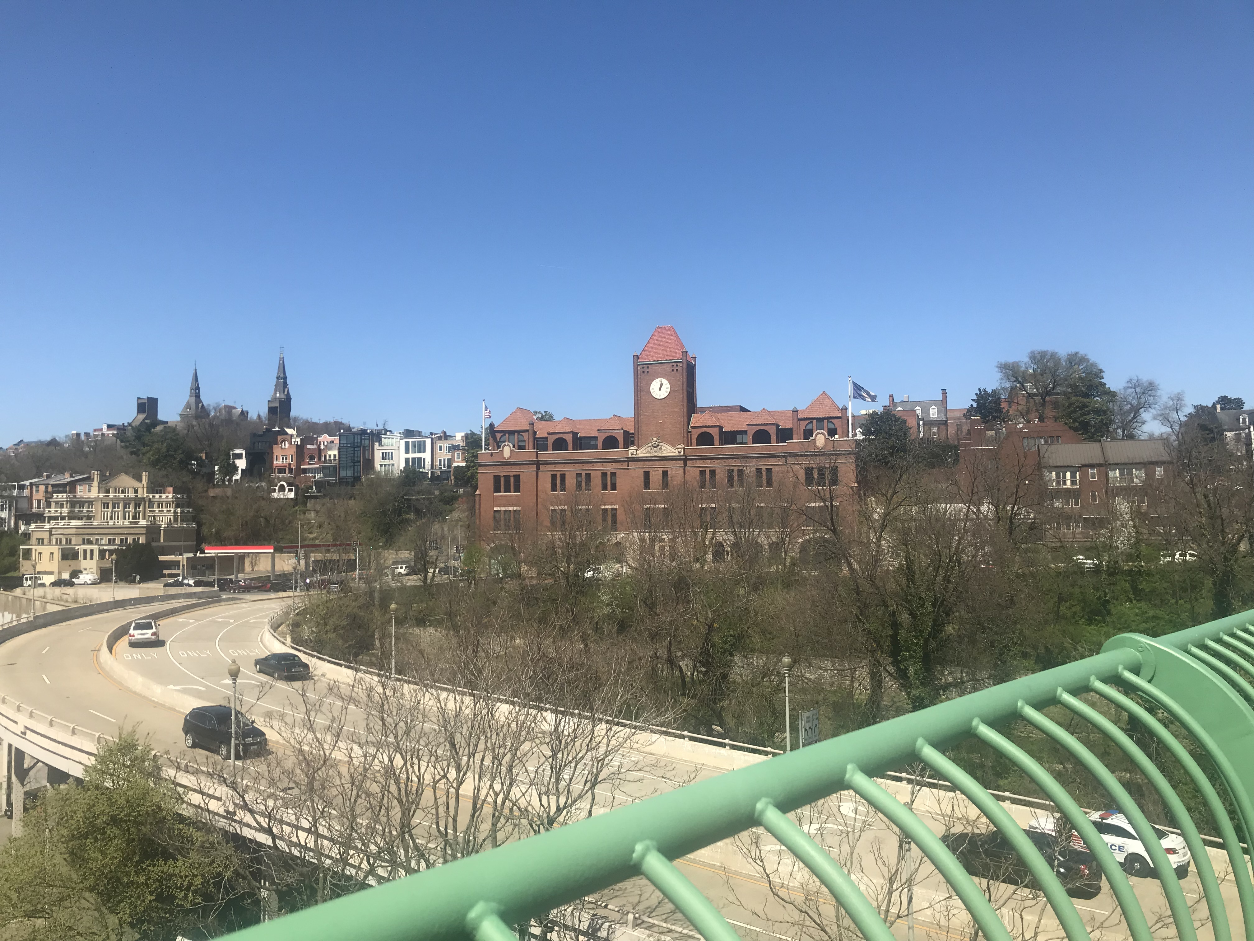 The Georgetown Car Barn as seen from Key Bridge